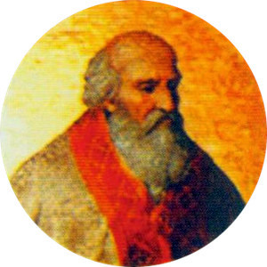 Portait of Pope Lucius III in the Basilica of Saint Paul Outside the Walls, Rome